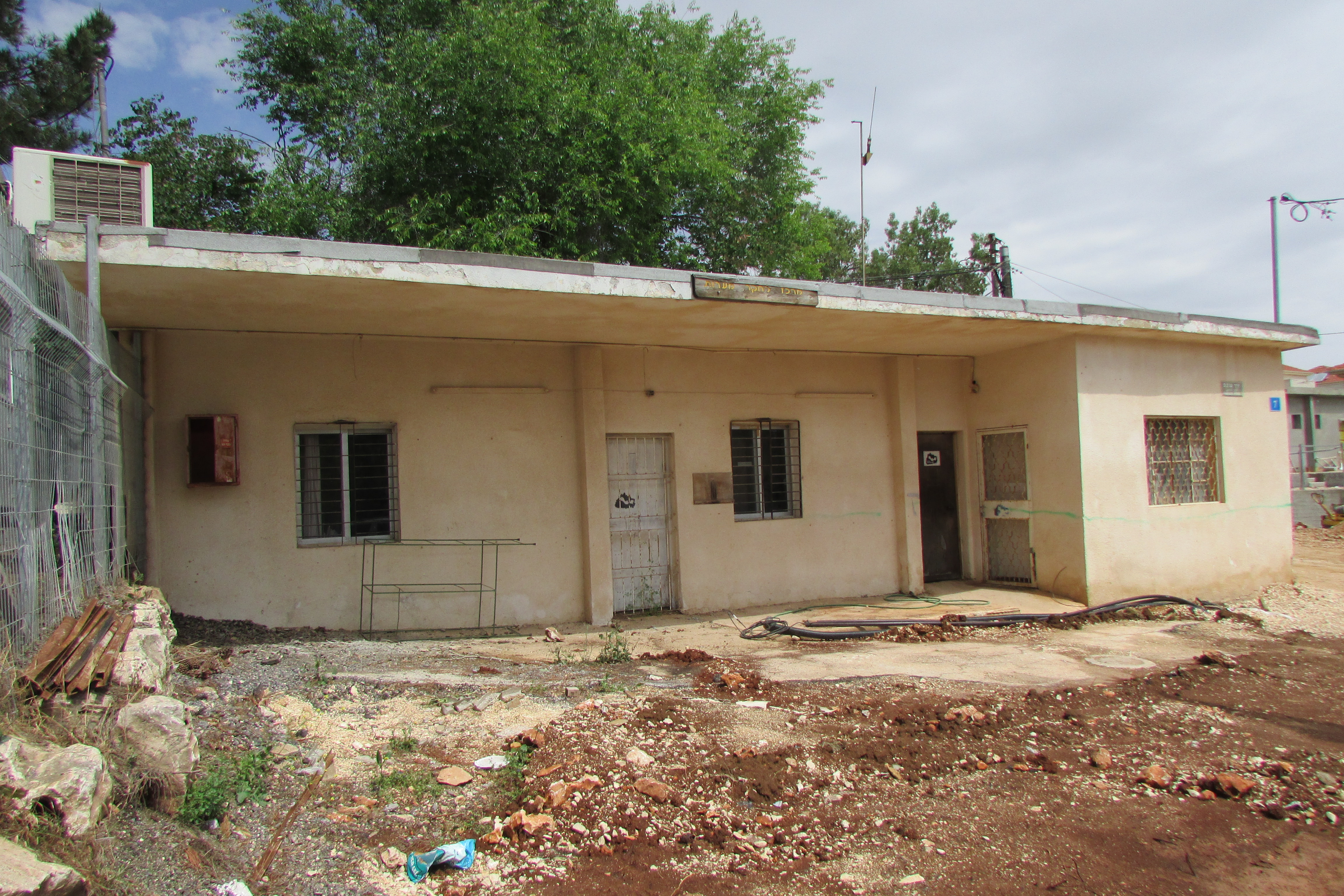 Israel Cave Research Center in Ofra